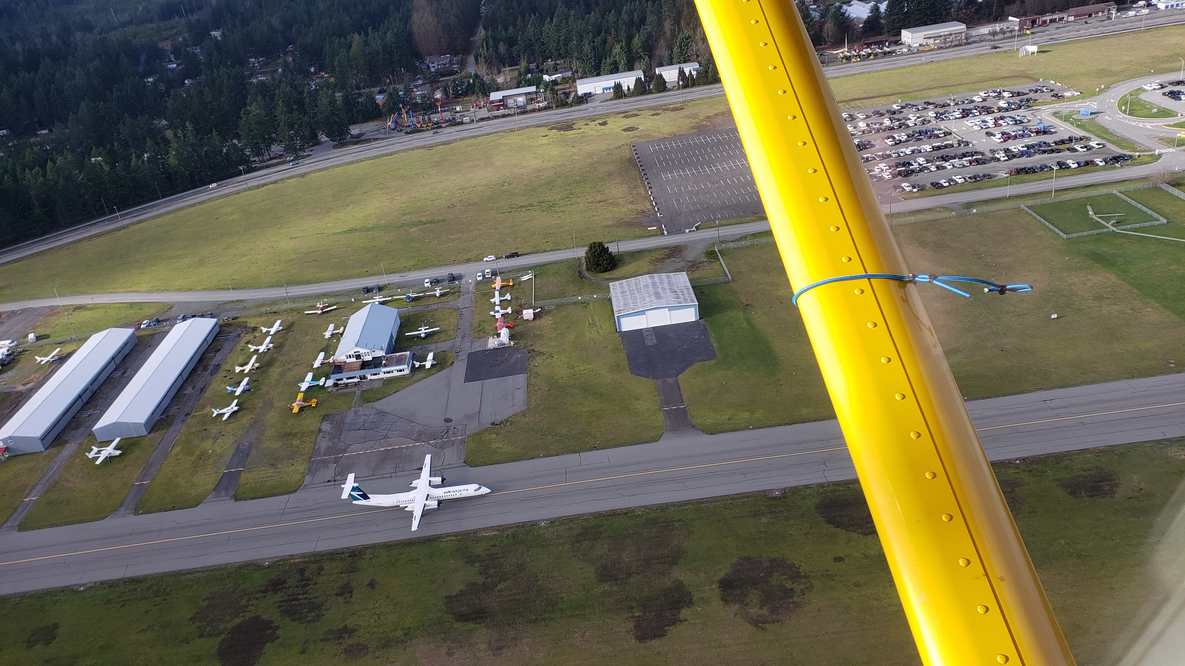 Looking west while on the outbound departure of Runway 16 while a Westjet Encore Q400 taxies to the gate.